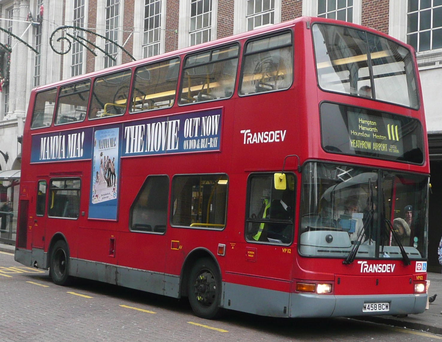 Transdev London's VP112 (W458 BCW), a Volvo B7TL/Plaxton President in Kingston on route 111.